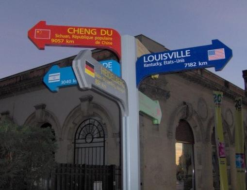 Sign in Montpellier, France, pointing to Montpellier's sister cities.